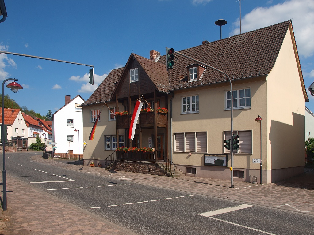 Town hall of the municipality Ronshausen